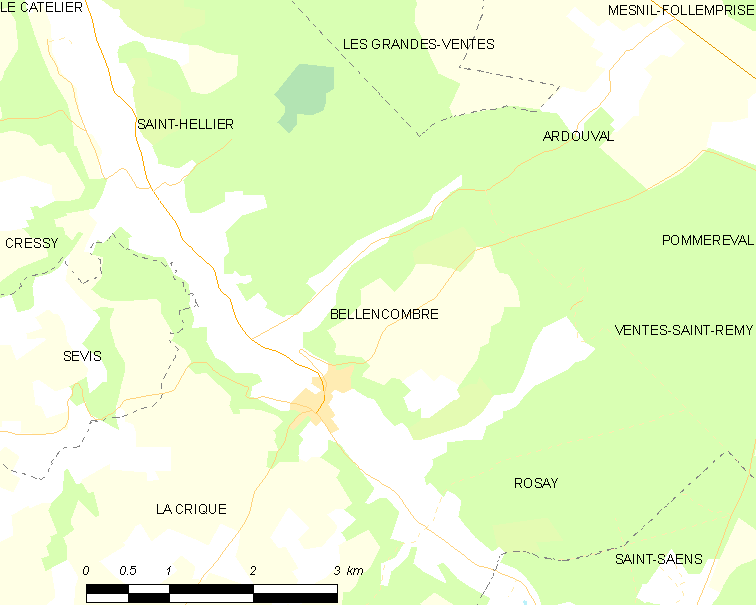 Map of French municipality Bellencombre